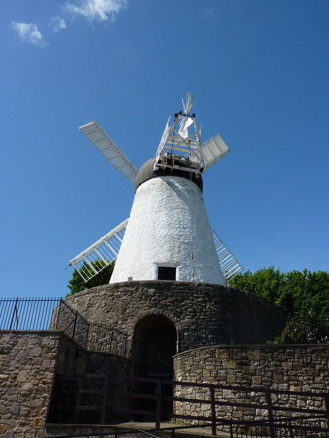 Fulwell Windmill, Data from Geograph: Description: ICBM: 54.92874560489, -1.390762598001 Location: (about 1 km from) near to Fulwell, Sunderland, Great Britain.